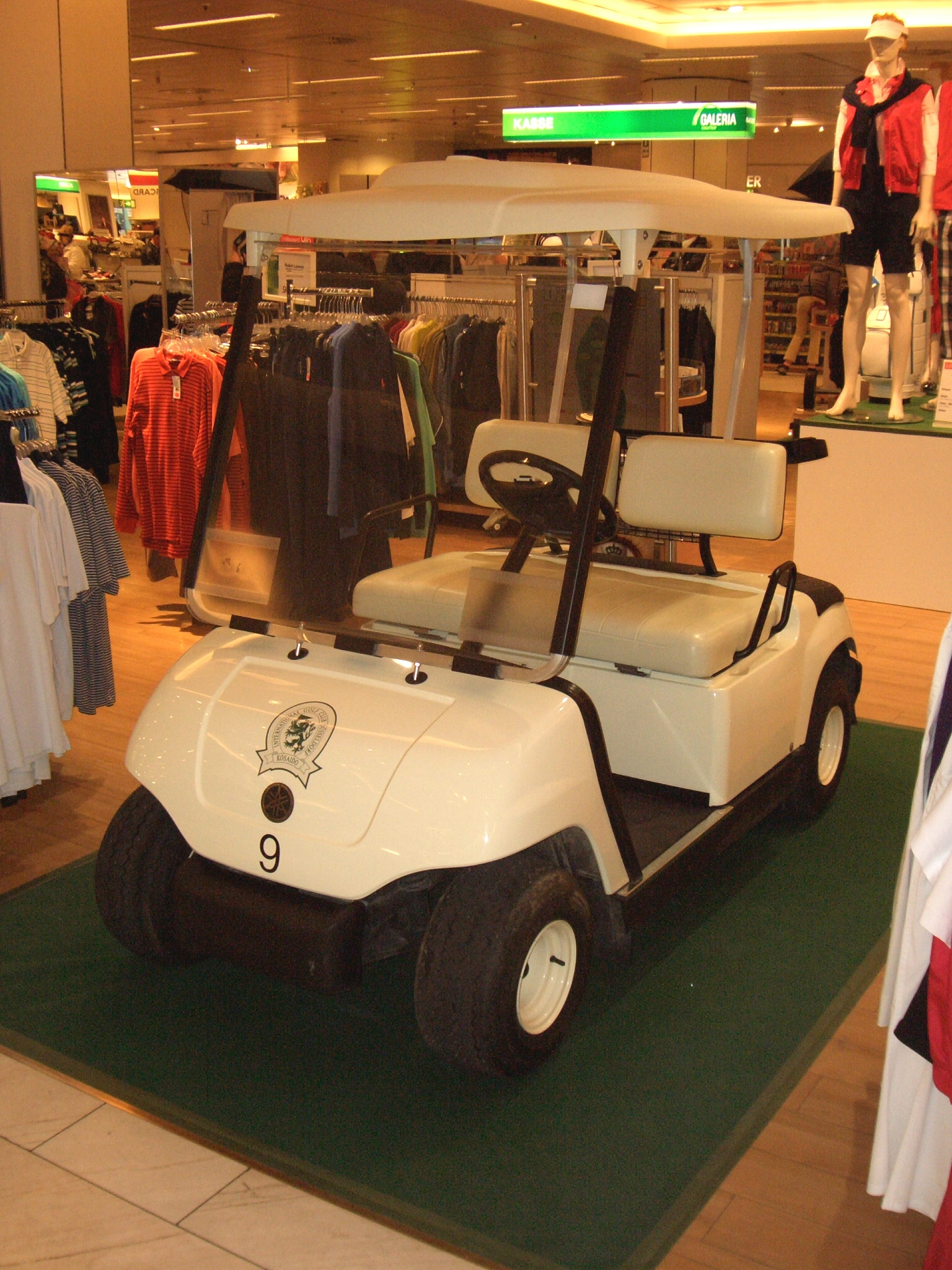 Yamaha G-19 golf cart, KOSAIDO Golf Club (Duesseldorf, Germany), on display in a local deprtment store